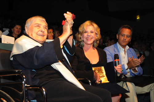 Fernanda Pivano, Erica Jong, Michele Concina